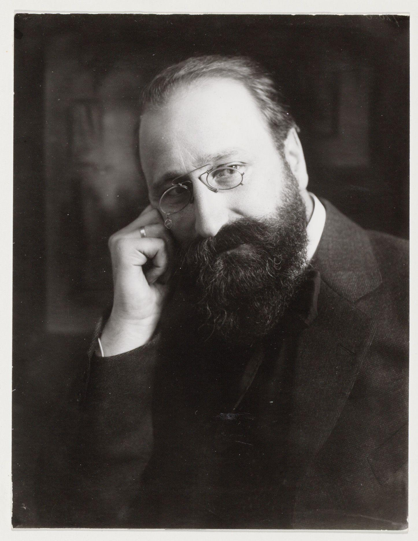 Photograph of Dutch poet Carel Steven Adama van Scheltema by Jacob Merkelbach (1877-1942)